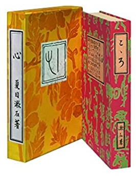 Natsume Sôseki cover "Kokoro", first edition 1914